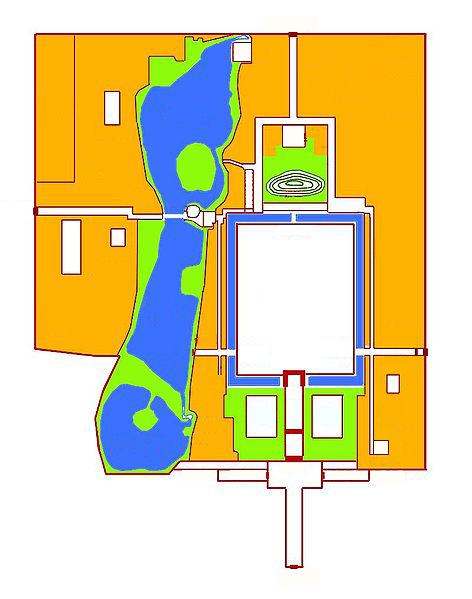 Map of the Forbidden City, Beijing